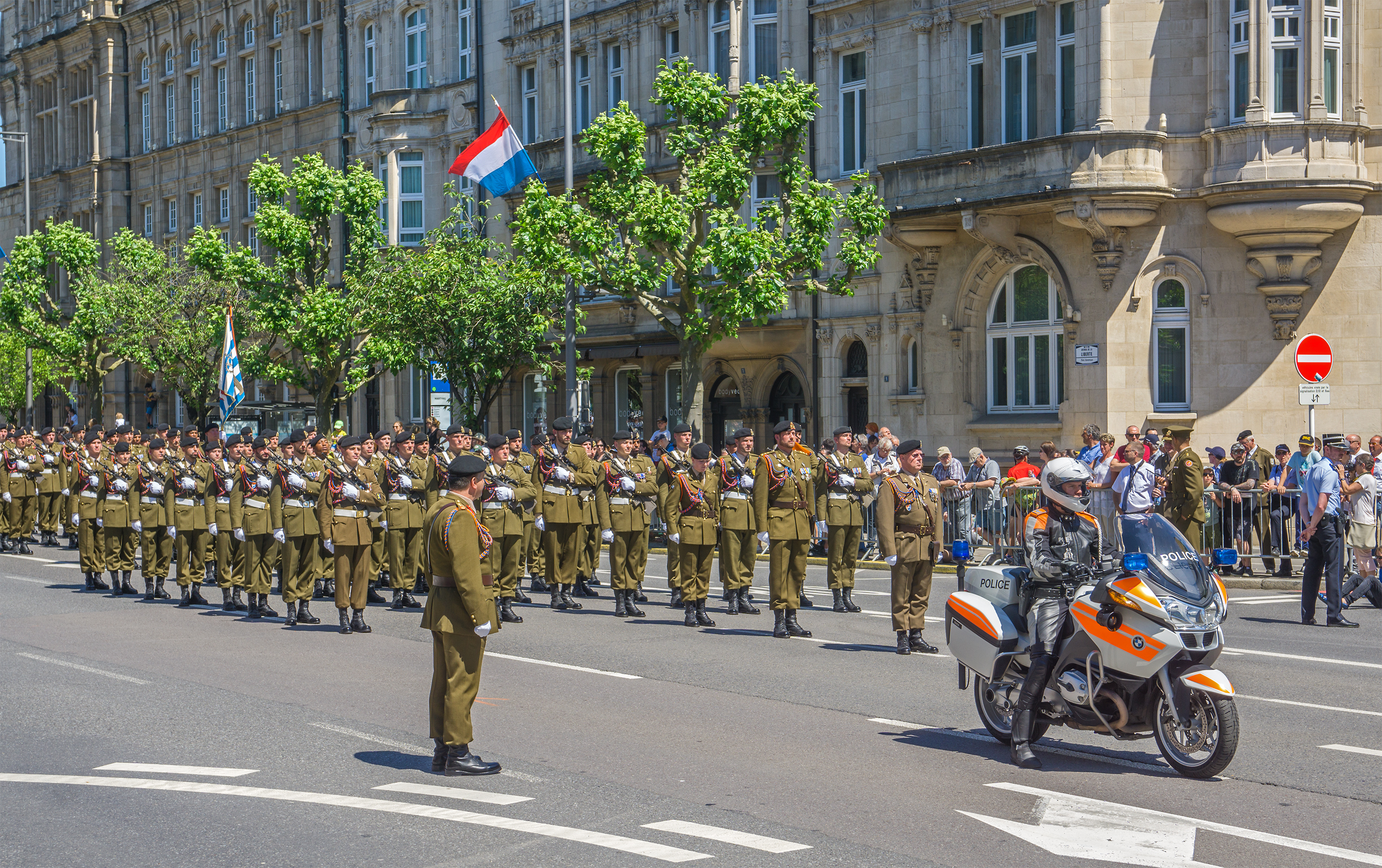 Military and civil parade on national holiday of Luxembourg